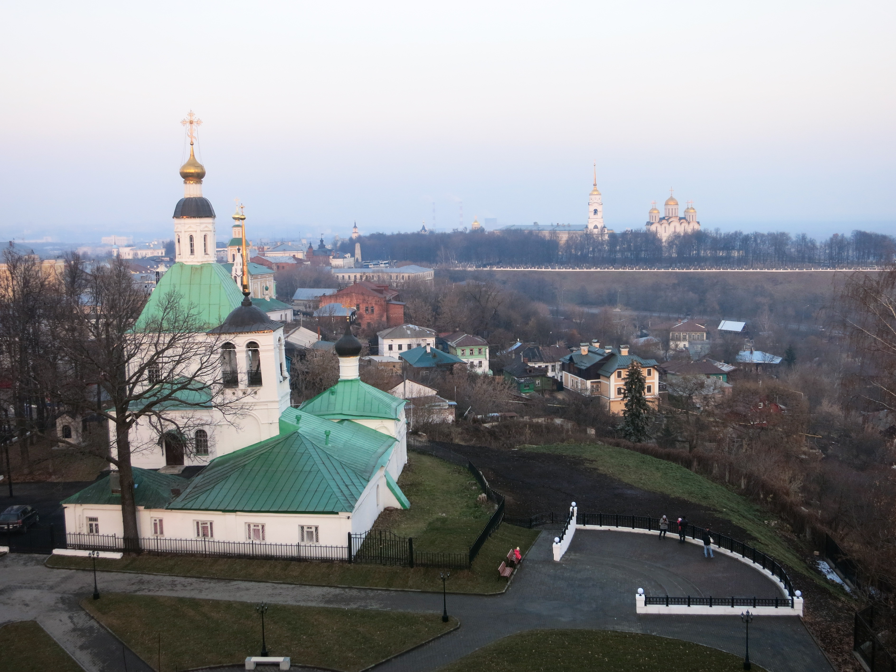 The view from the Observation (Water) tower to the East. Visible the Uspensky Cathedral and Church of the Saviour.